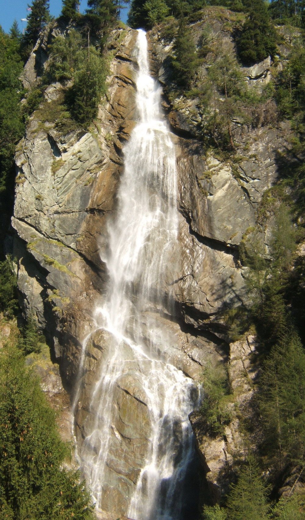 Steinerfall in the Prosseggklamm (Tauerntal) shot by SehLax on 19/08/2005